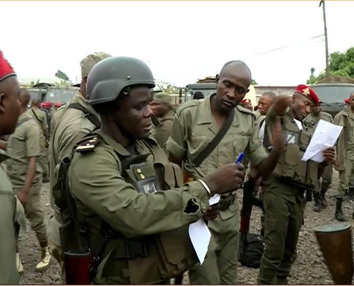 Cameroon gendarmes arrive in the English speaking town of Buea, Cameroon, January 9, 2020. (M. Kindzeka/VOA)